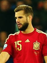 Nacho Fernández